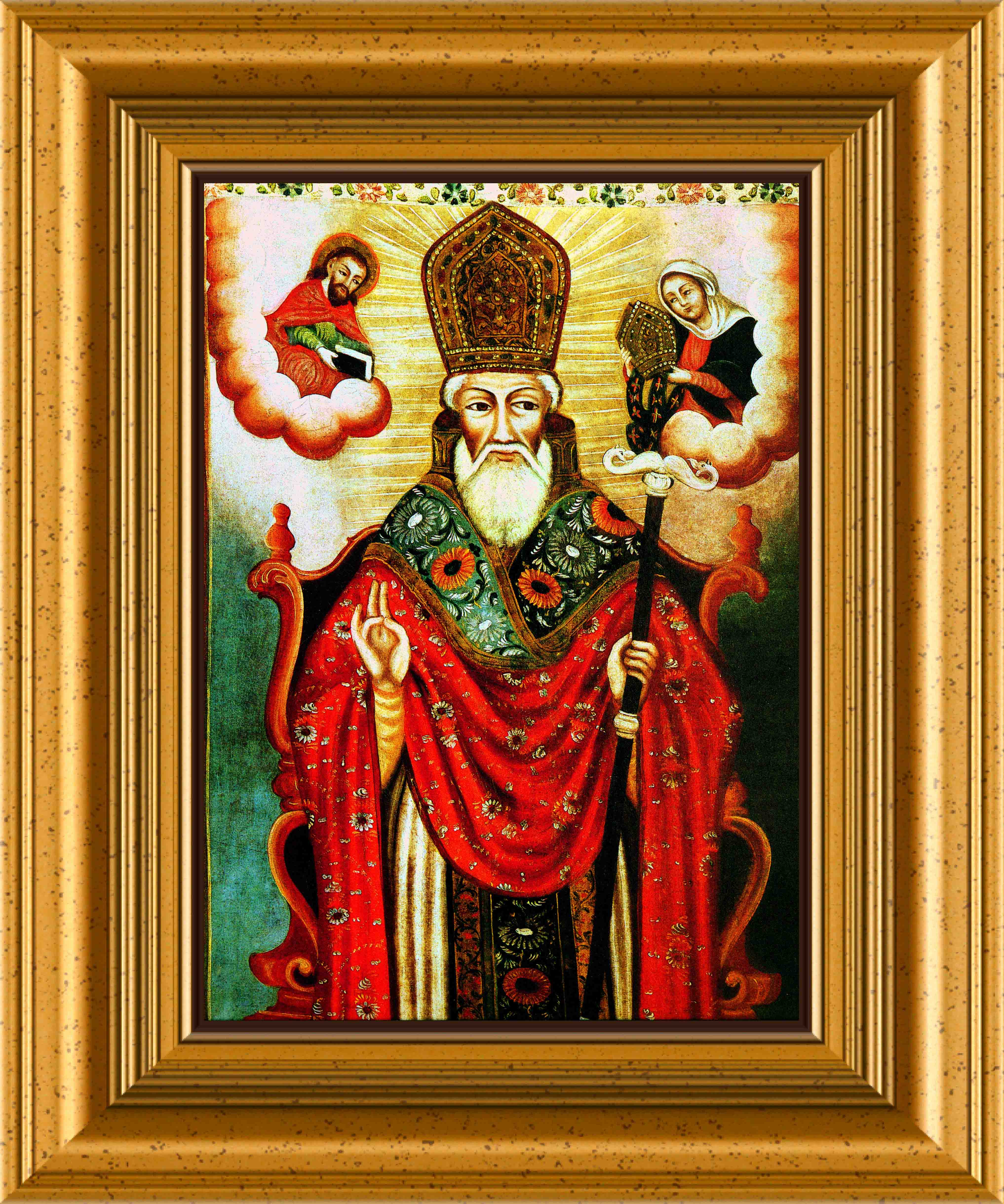 Portrait of Saint Gregory the Illuminator, the founder and patron saint of the Armenian Apostolic Church.